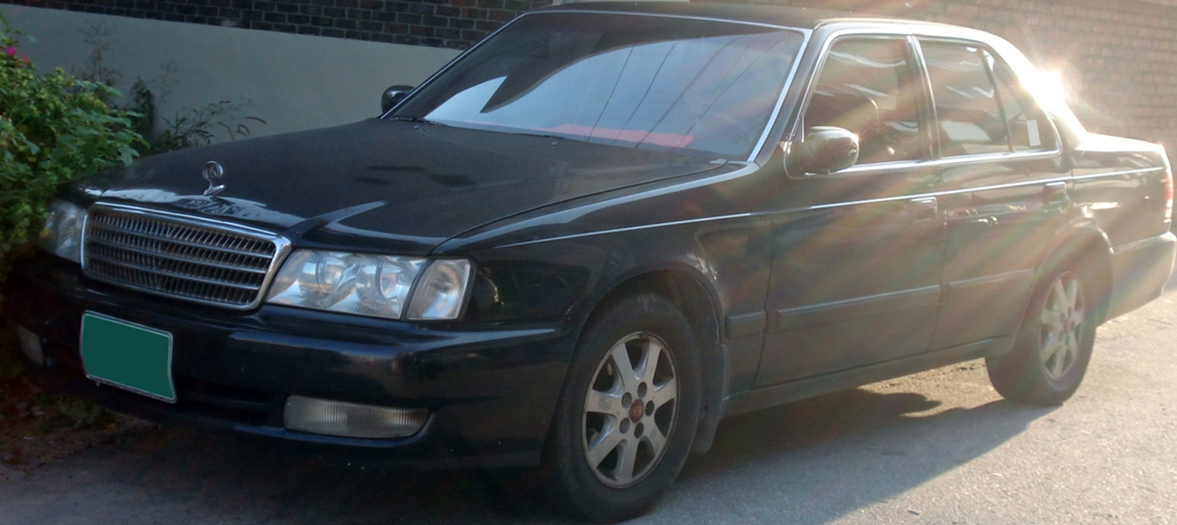 Kia New Potentia